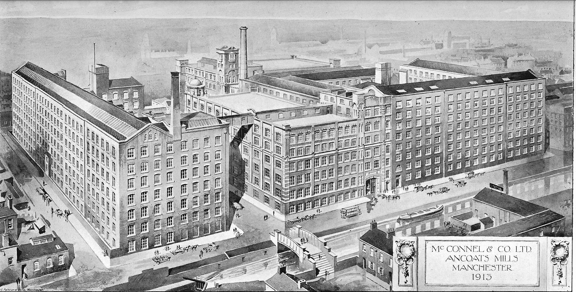 Ancoats, Manchester. McConnel & Company's mills, about 1913.